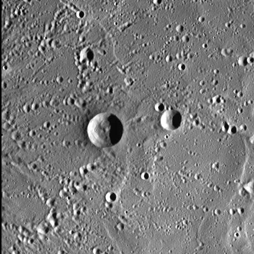 Strauss crater (center) on Mercury. MESSENGER WAC. Emission Angle: 0.3 Incidence Angle: 74.9 Latitude: 70.2 Longitude: 75.2 Phase Angle: 74.6